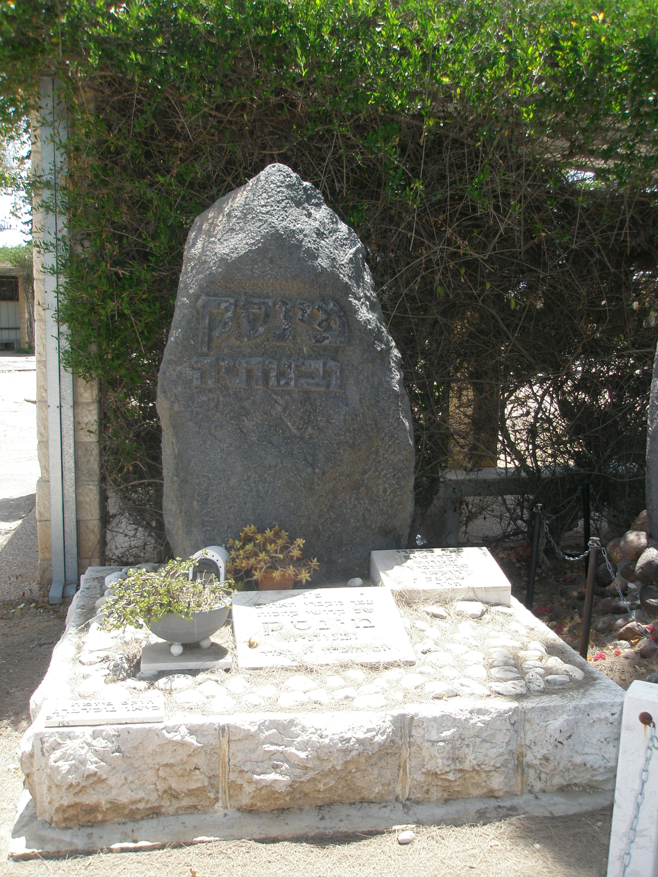 Minsk Jewery memorial at Kiriat Shaul cemetery